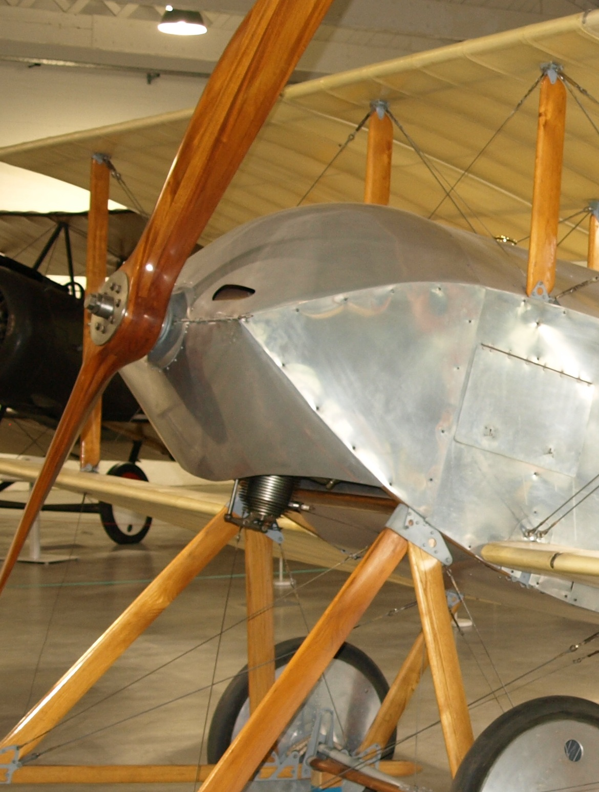 Replica Sopwith Tabloid aircraft on display at the Royal Air Force Museum London. The aircraft is fitted with an original 80 hp Gnome Lambda rotary engine.